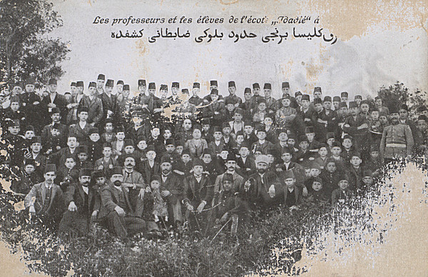 Teachers and Students in the Idadie in Kirkklise Lozengrad